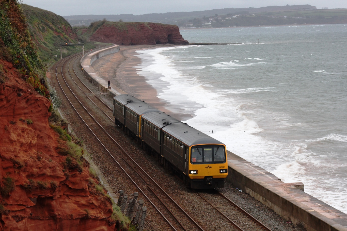 The railway line between Dawlish and Teignmouth is renowned for its sea views. 'Pacer; units 143621 and 143620 are working a Great Western Railway service from Exmouth to Paignton.